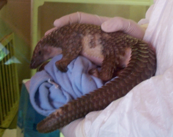 A baby pangolin (Manis spp.).